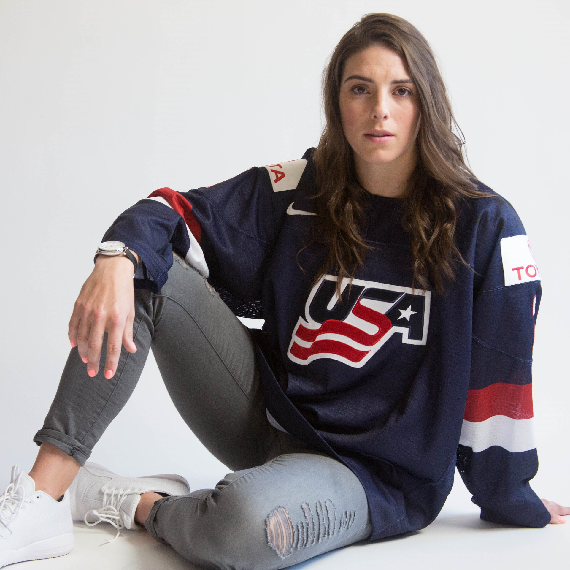 Hilary Knight